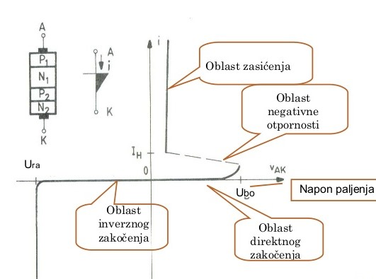 Electronic symbol, layer diagram, I-U characteristcs of dynistor